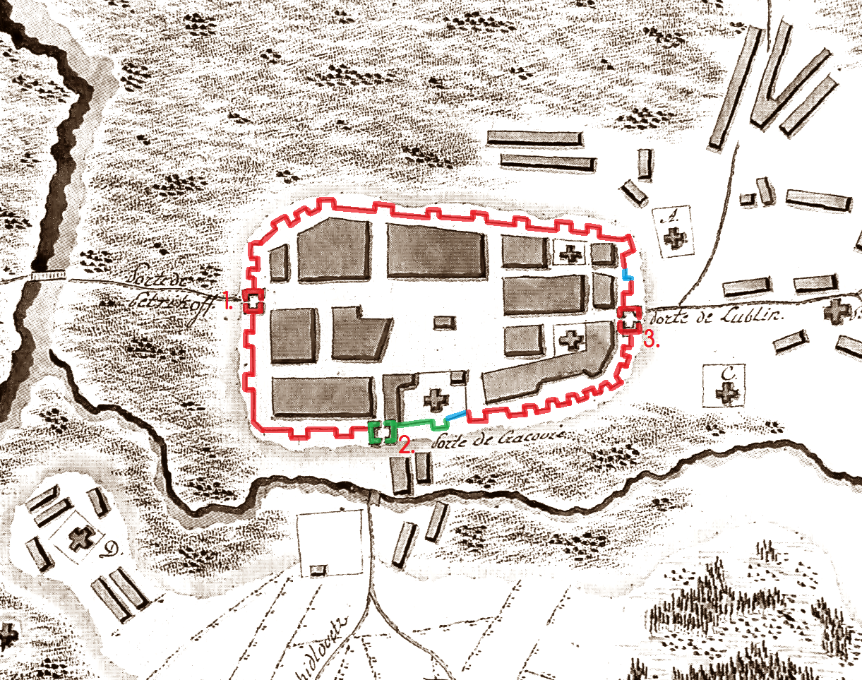 City walls of Radom, 18th century plan (fragment)